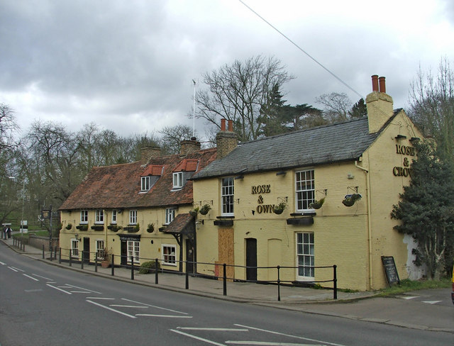 Rose and Crown Public House, Clay Hill, Enfield Rose and Crown Public House in Clay Hill is opposite Hilly Fields Park.